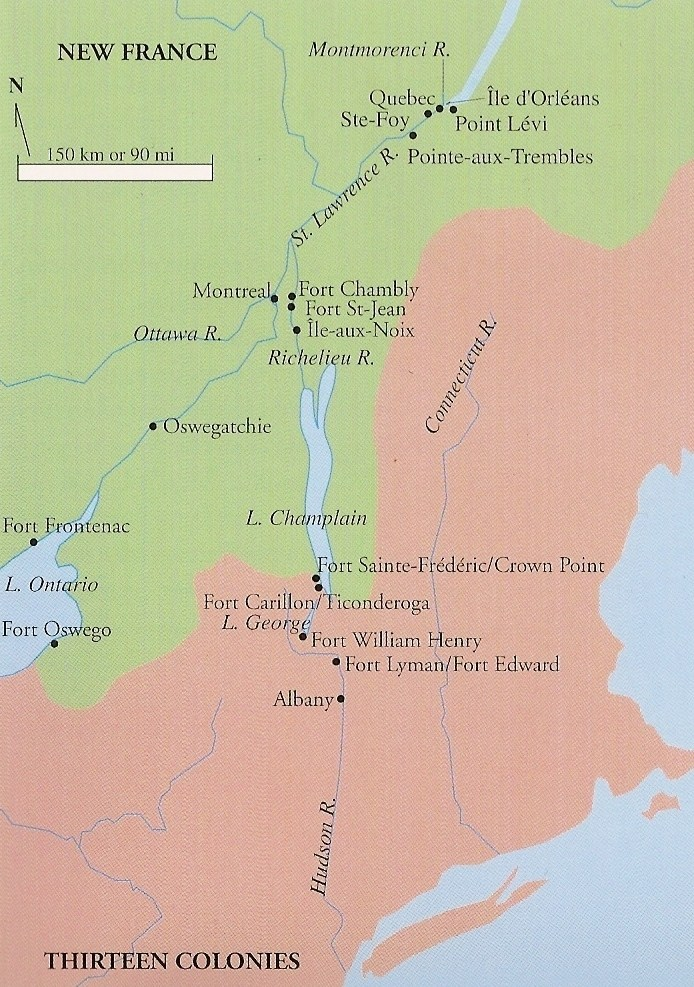 New France 1754